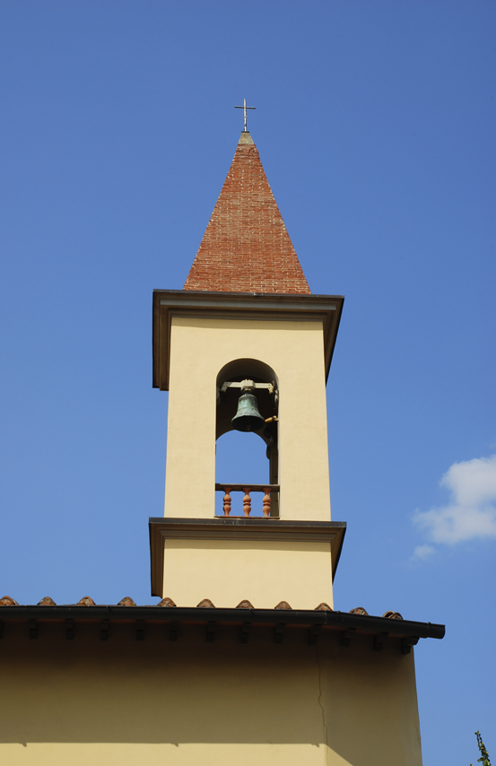 the Church of San Quirico at Legnaia, Florence, Italy. Bell Tower.